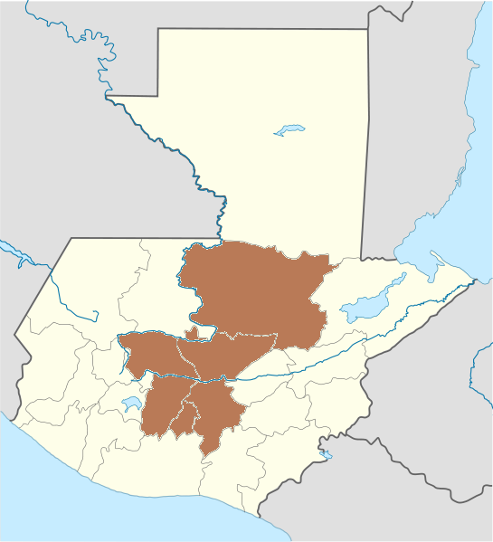 Map of area that the Order of Preachers was assigned for doctrines in Guatemala from 1546 to 1754.